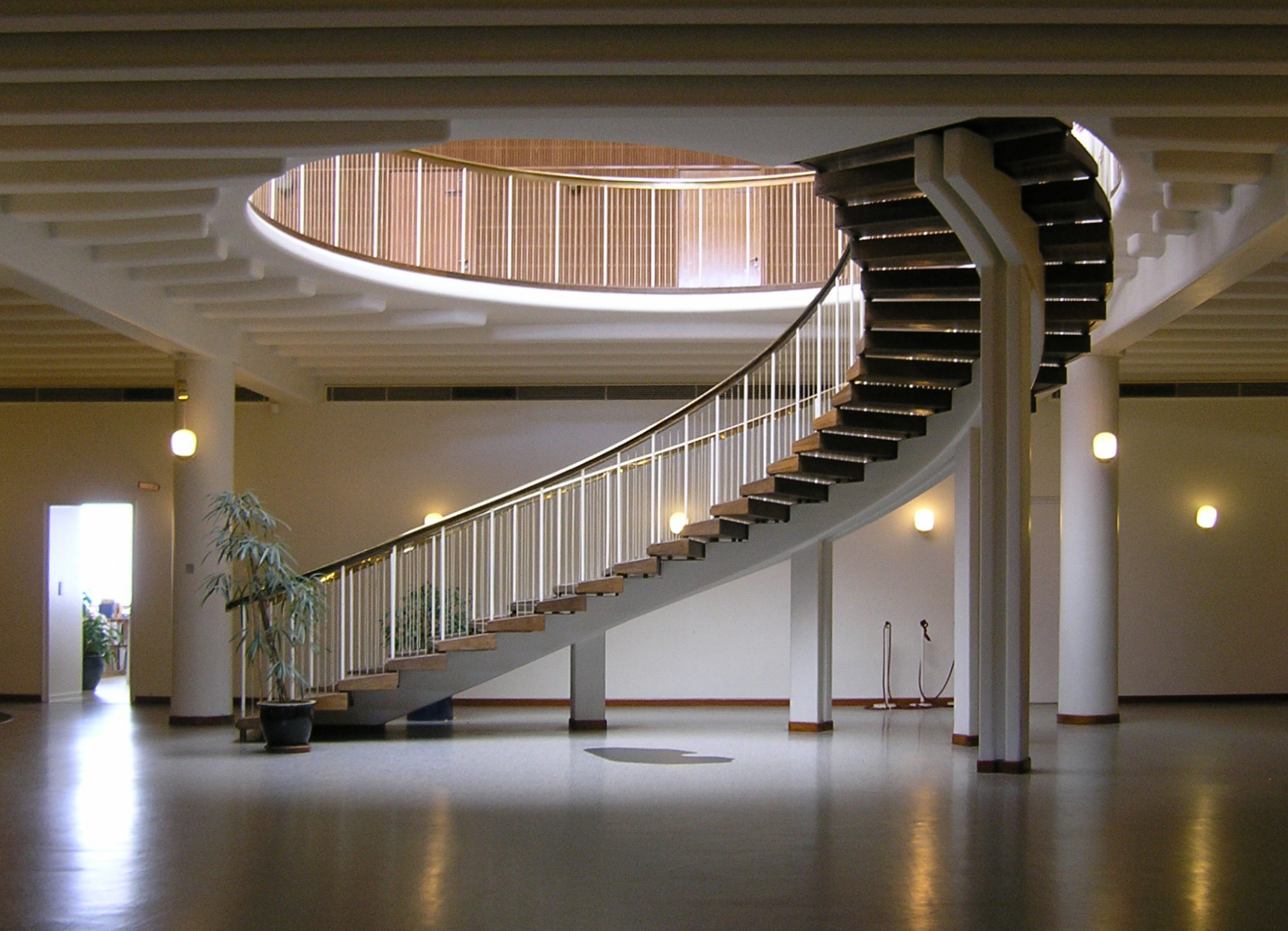 aarhus town hall, aarhus, denmark, 1937-1942. architects: arne jacobsen, 1902-1971 with erik møller, 1909-2002. portrait of a staircase... more arne jacobsen